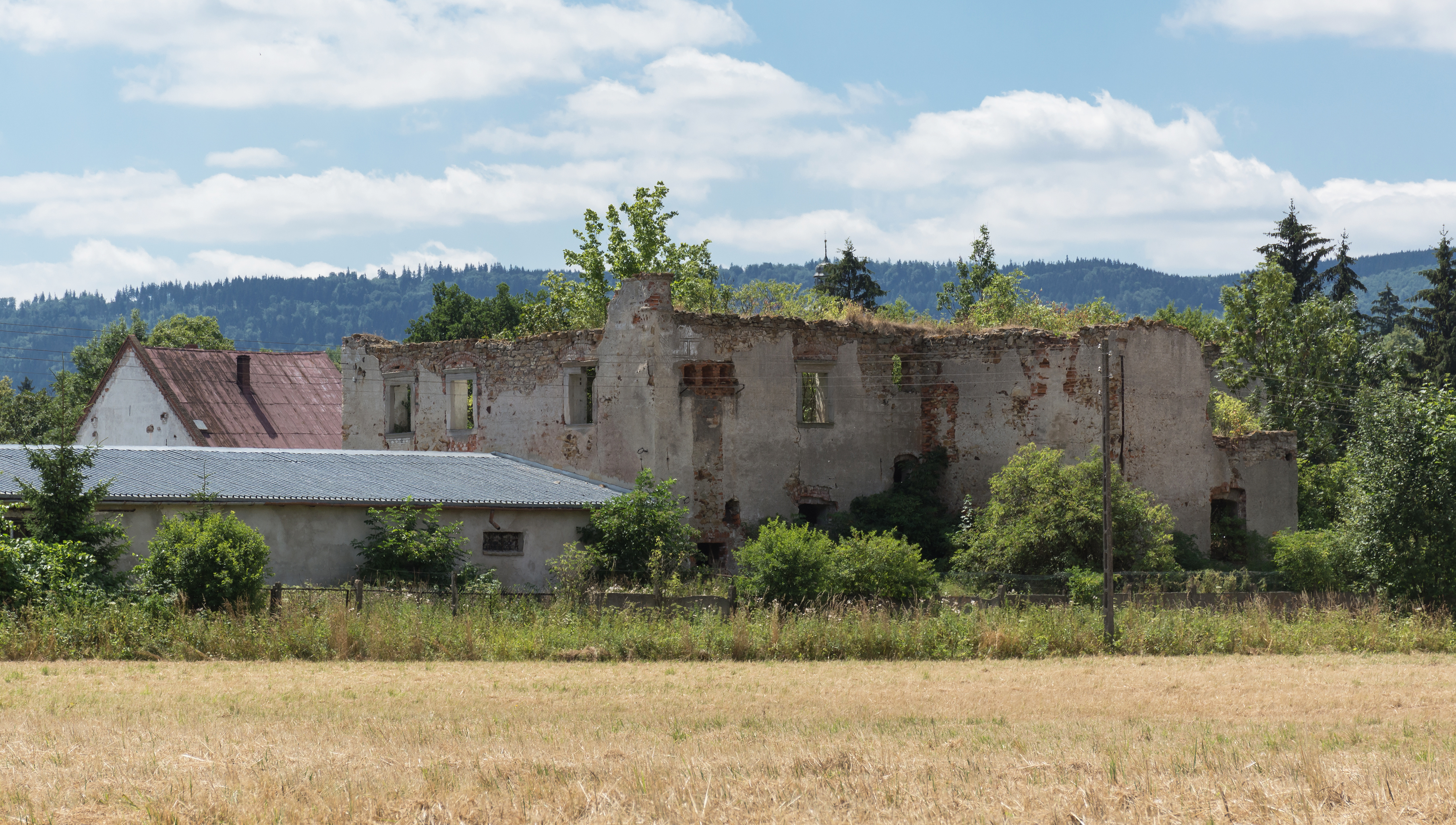 Raczyn Manor in Gorzanów